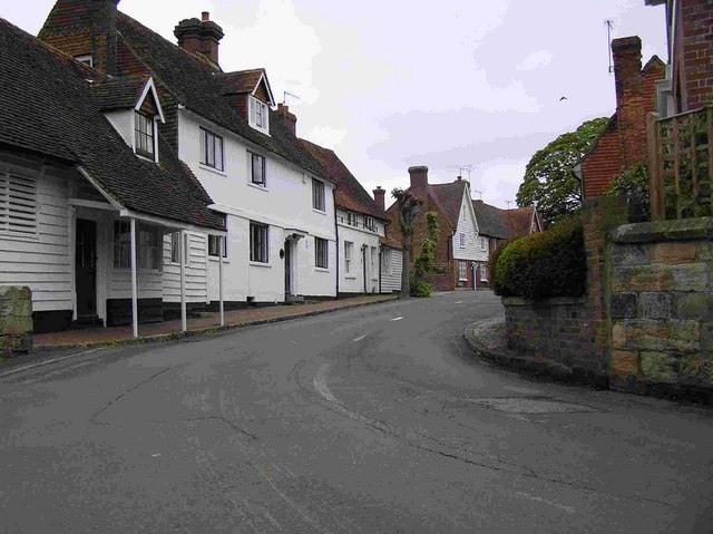 High Street, Cowden Mounting block and old butcher's-shop on left.